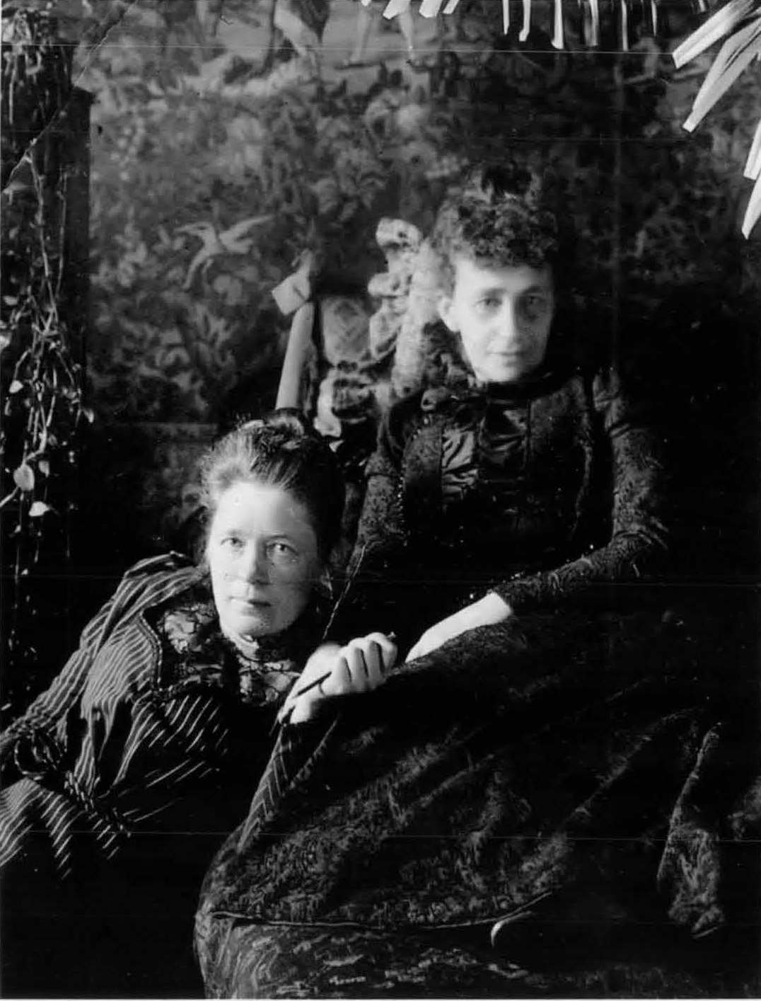 Sophie Elkan (right) & Selma Lagerlöf (left)